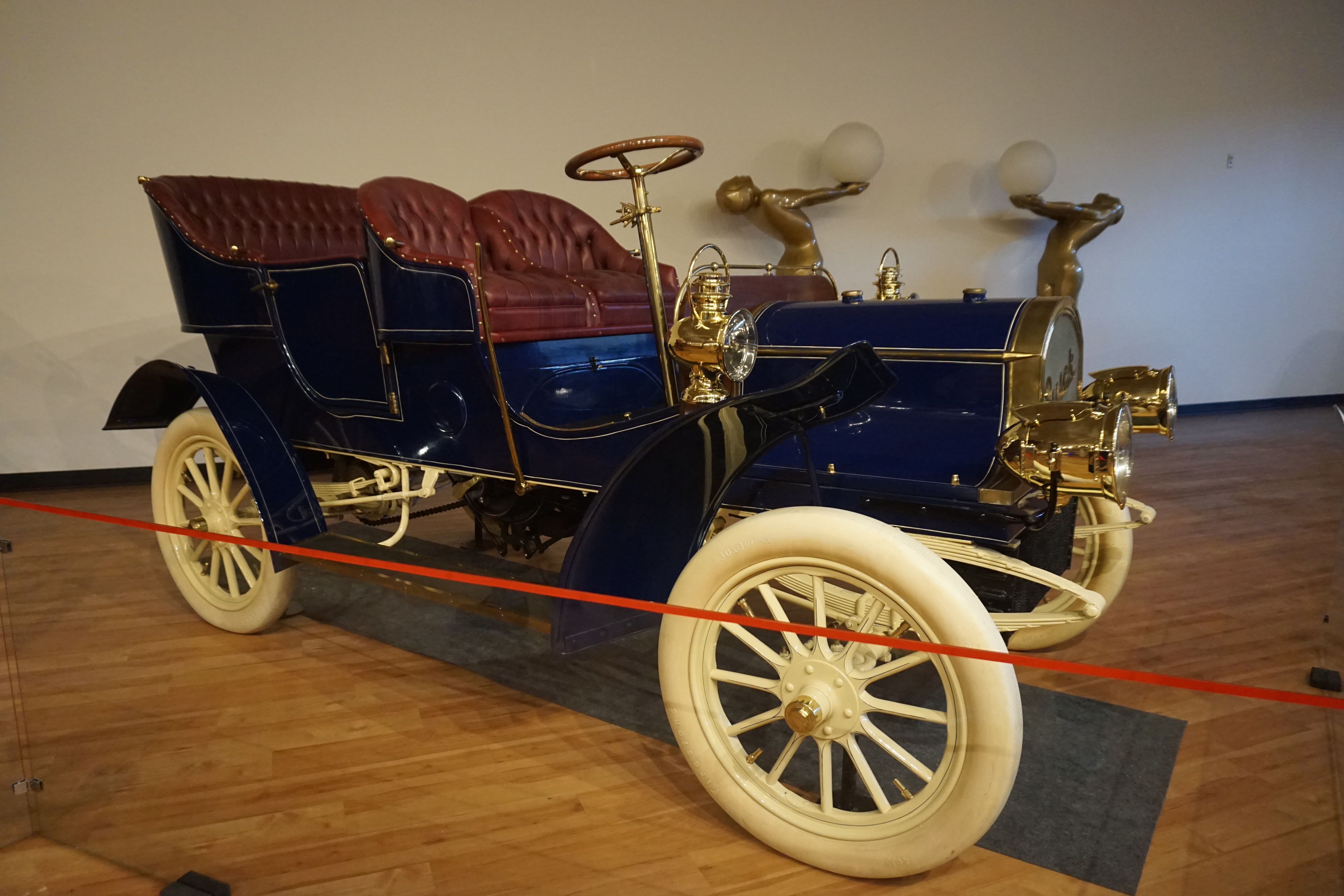 A 1905 Buick Model C at the Sloan Museum at Courtland Center in Burton, Michigan (United States).